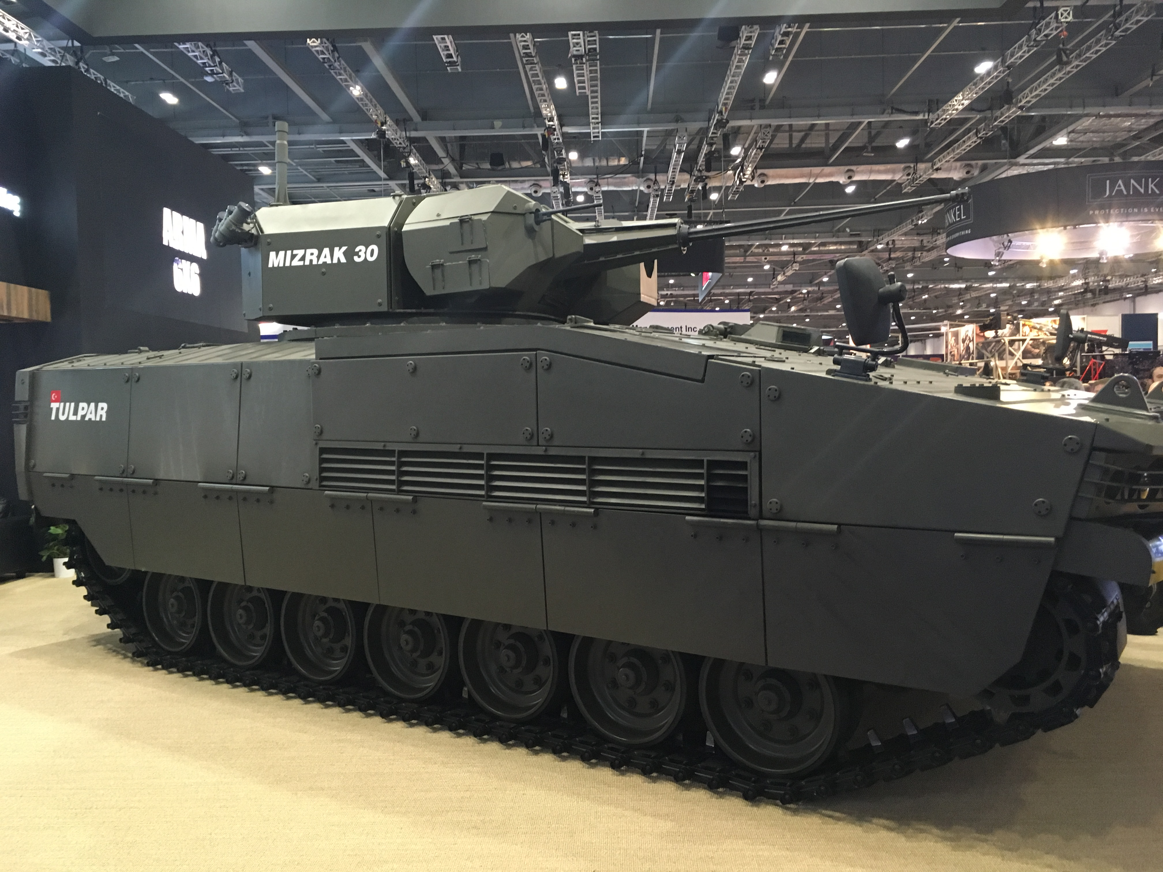 TULPAR IFV on DSEI-2019, OTOKAR company